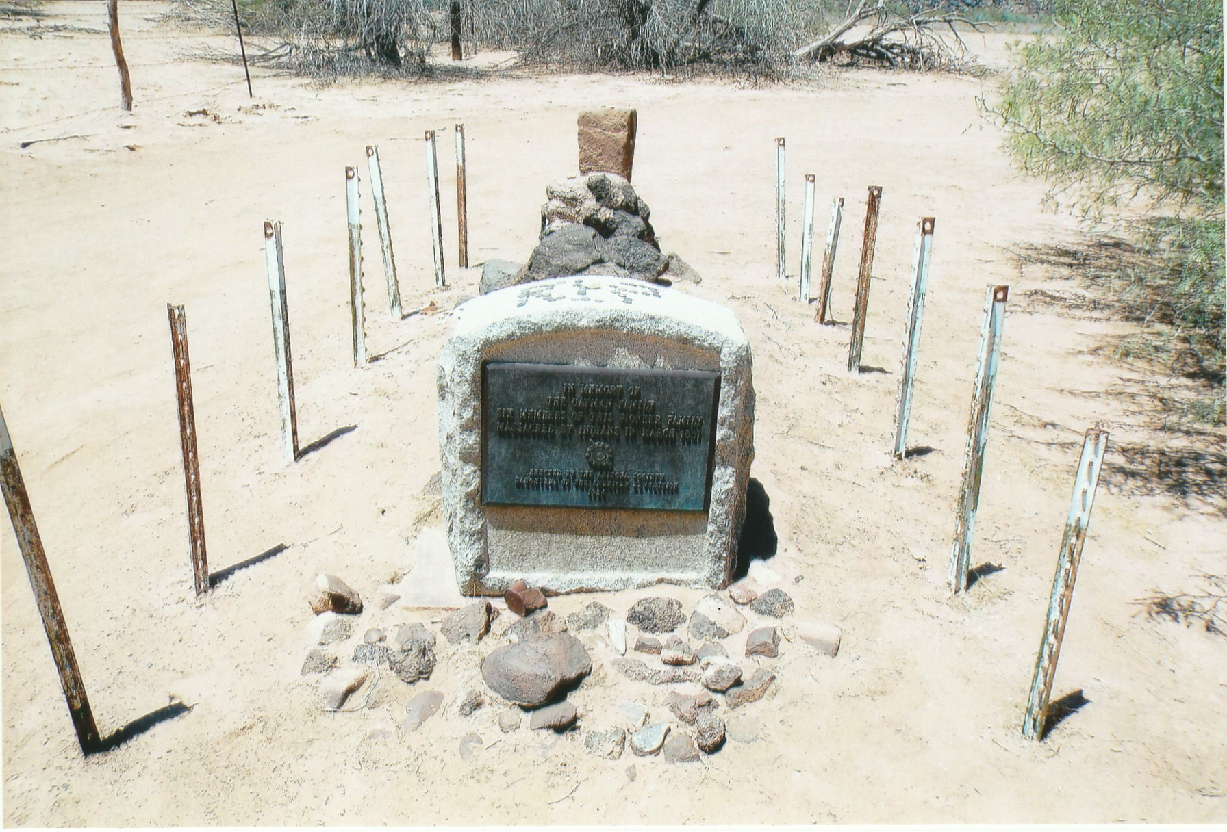 Oatman family grave-1851